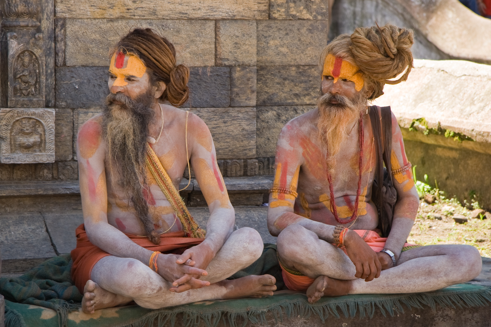 Two Sadhus, or Hindu Holy Men, near Pashupatinath temple in Kathmandu, Nepal. Usually sadhus live by themselves, on the fringes of society, and spend their days in devotion to their chosen deity.